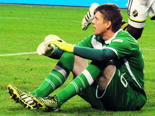 Andrey Gorbunov, Atromitos